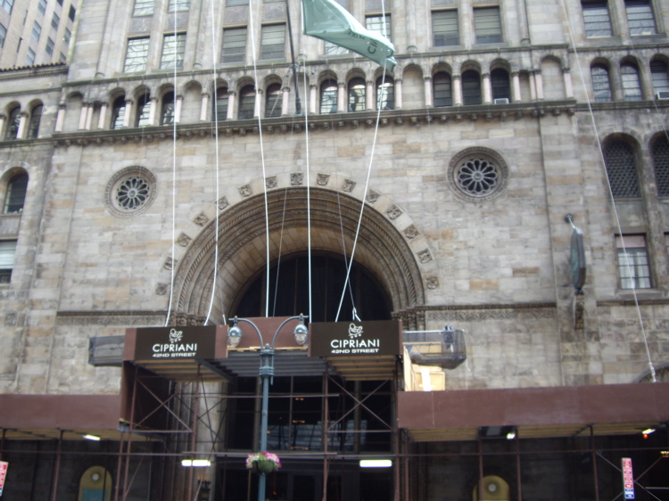 Bowery Savings Bank later headquarters, 110 East 42nd Street, Manhattan, New York. See also File:110 E42 jeh.JPG.